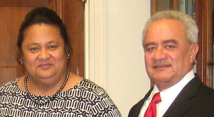 First Lady Mary Tulafono and Governor Togiola Tulafono of American Samoa (cropped from original).